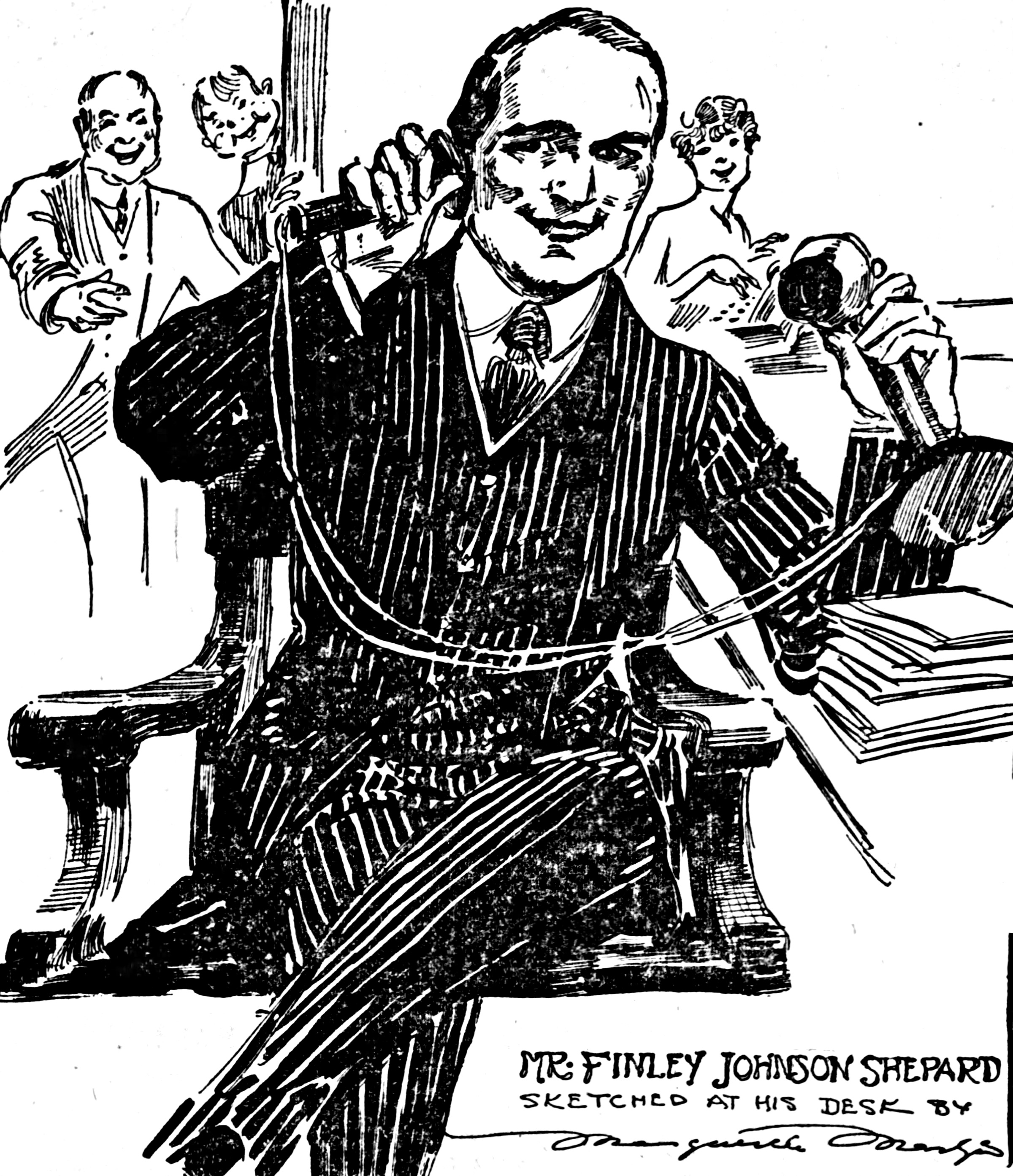 Marguerite Martyn sketch of [Finley J. Shepard at his desk on the phone as he is being congratulated on his engagement to Helen Gould, 1917